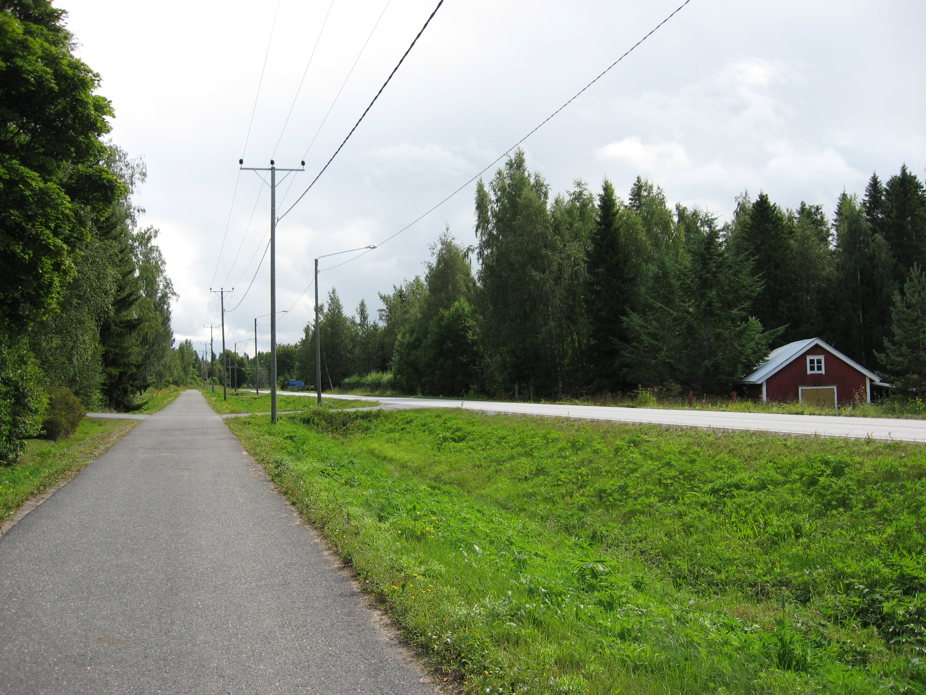 Cycleway and the Alskat road in the Grönvik village of Korsholm, Finland.